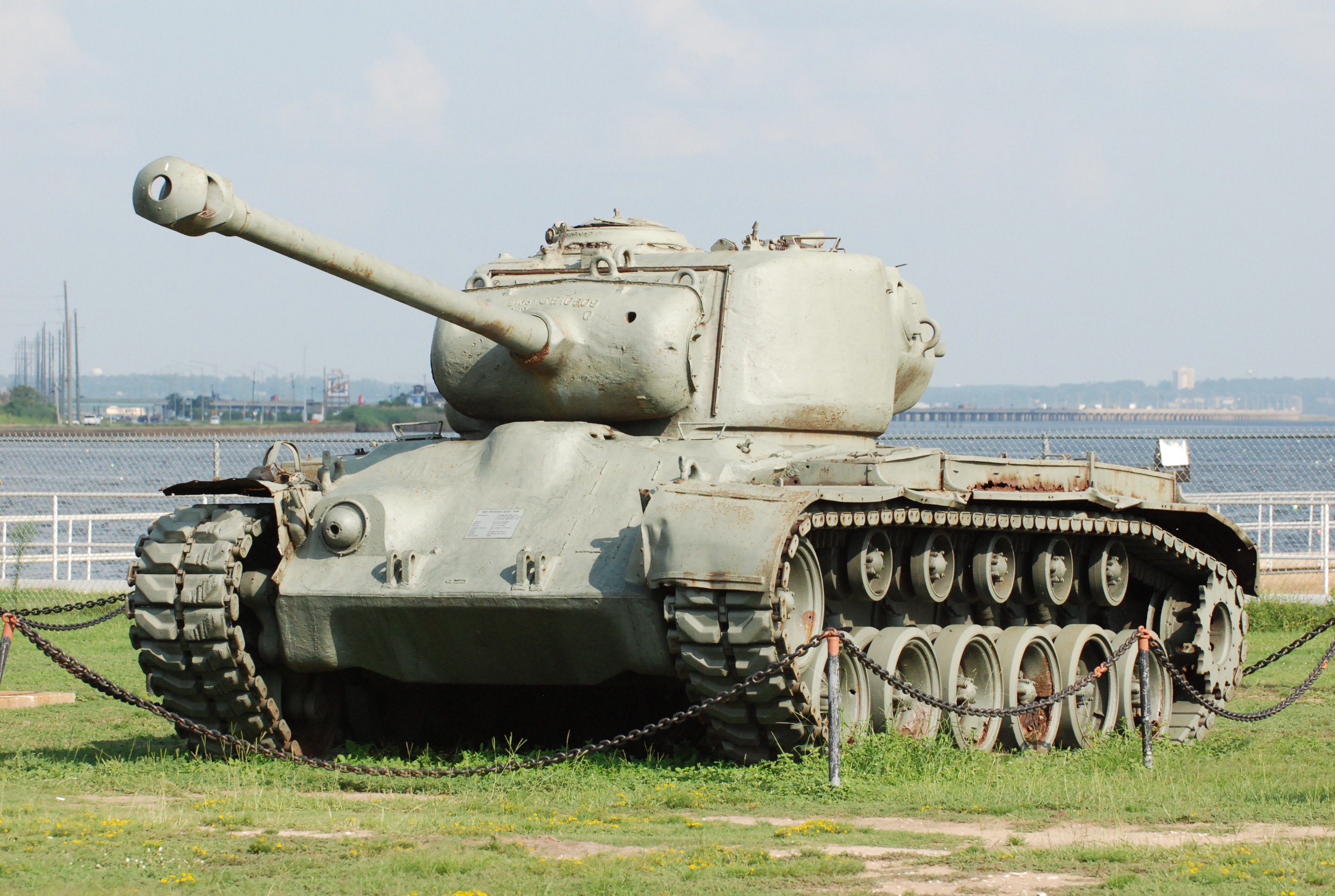 Tanks at the USS Alabama - Mobile, AL.